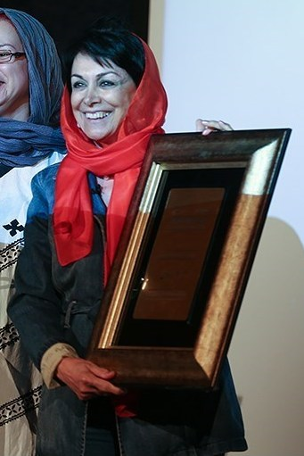 اختتامیه پنجمین دوره جایزه عکس شید